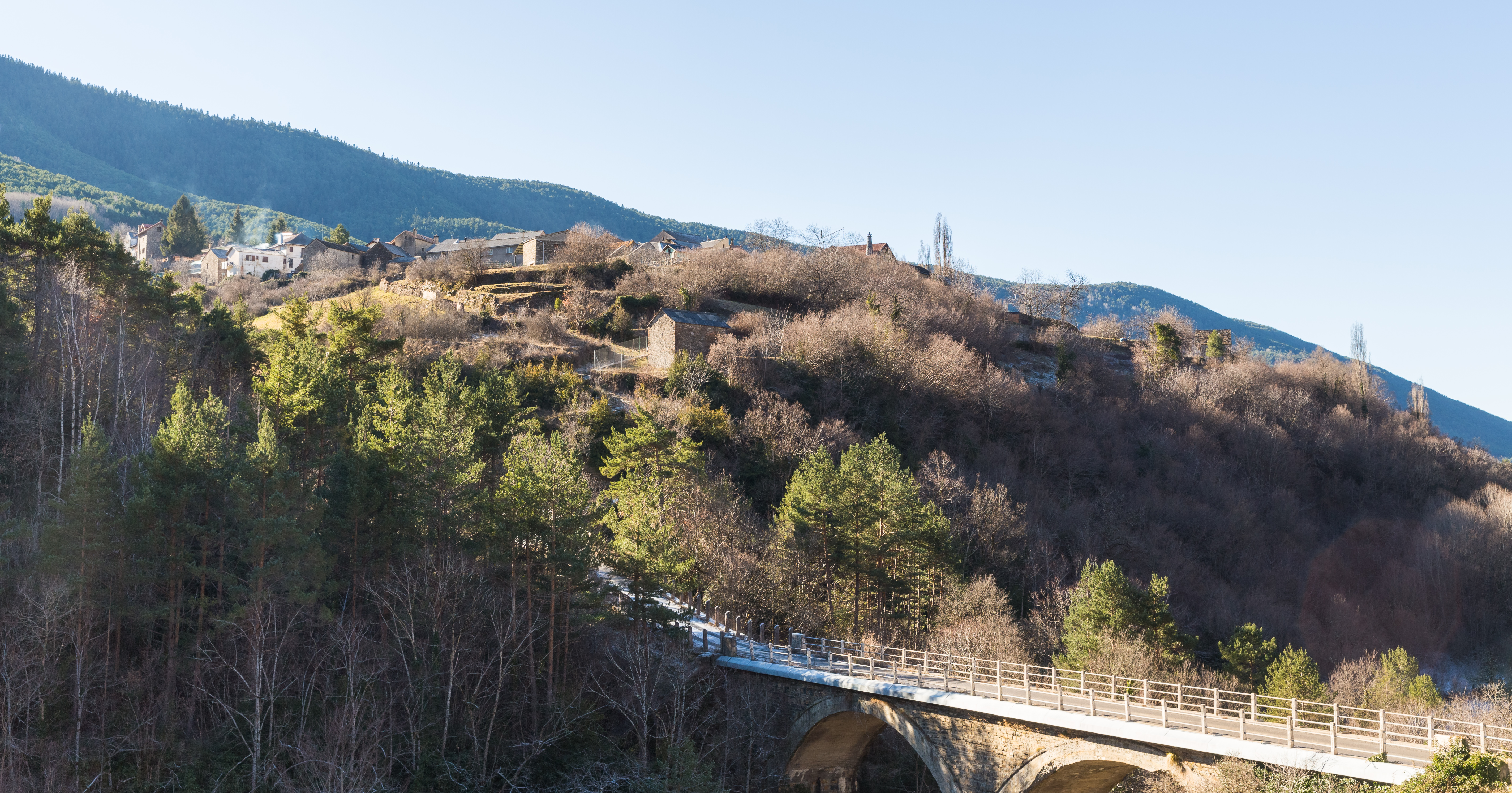 Yésero, Huesca, Spain